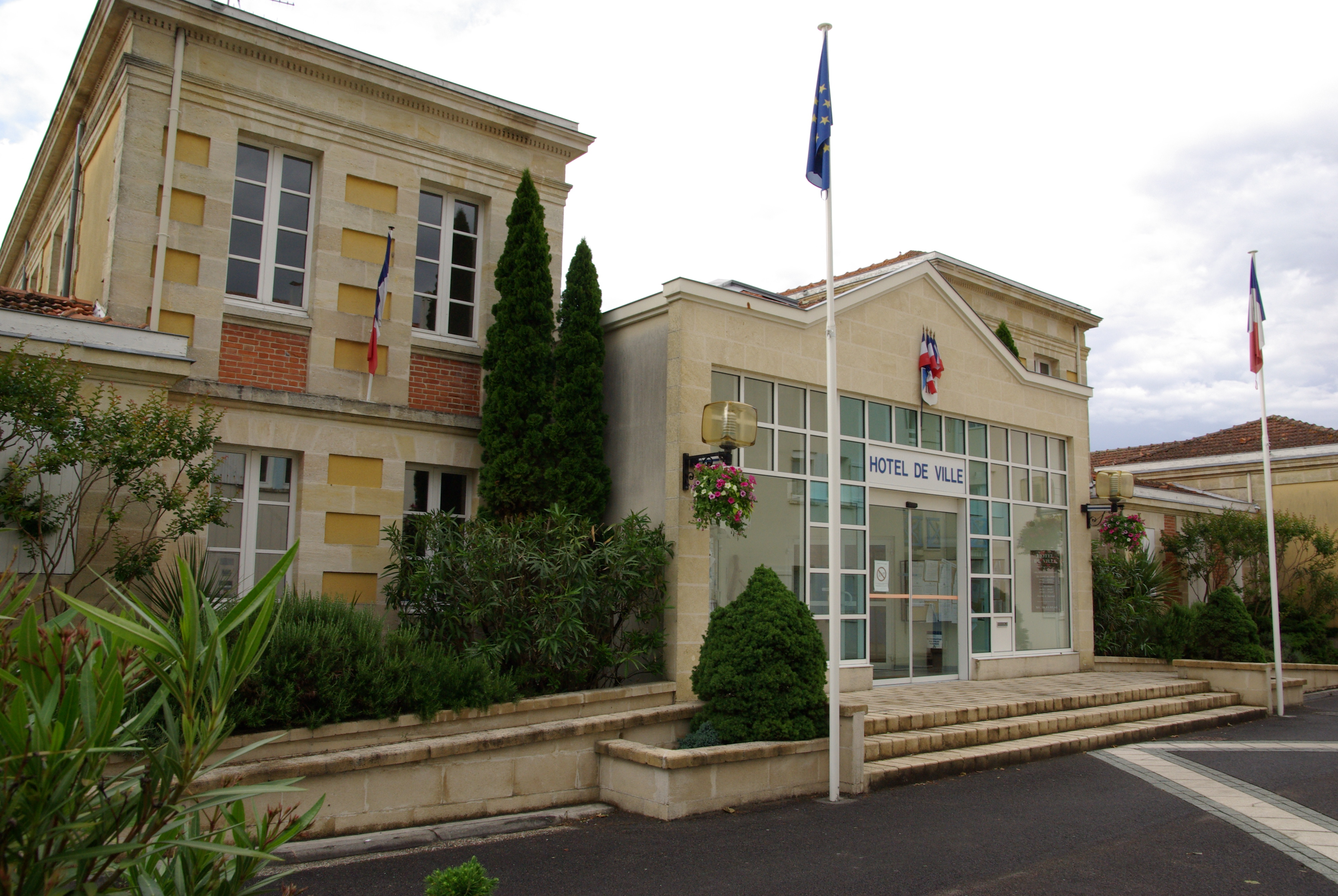 Town hall of Arès Gironde 33 France